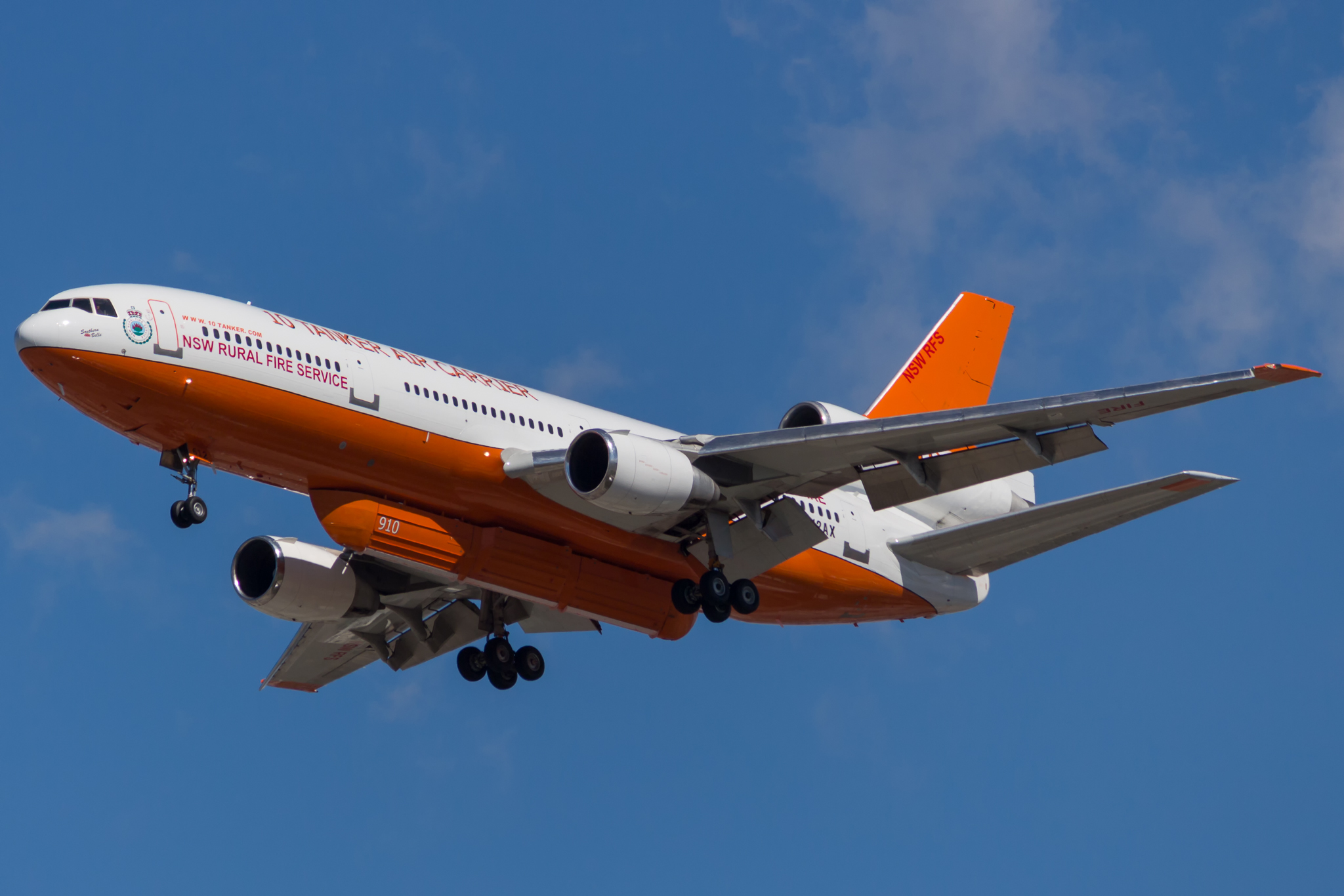 N612AX YBBN 10 Tanker air carrier